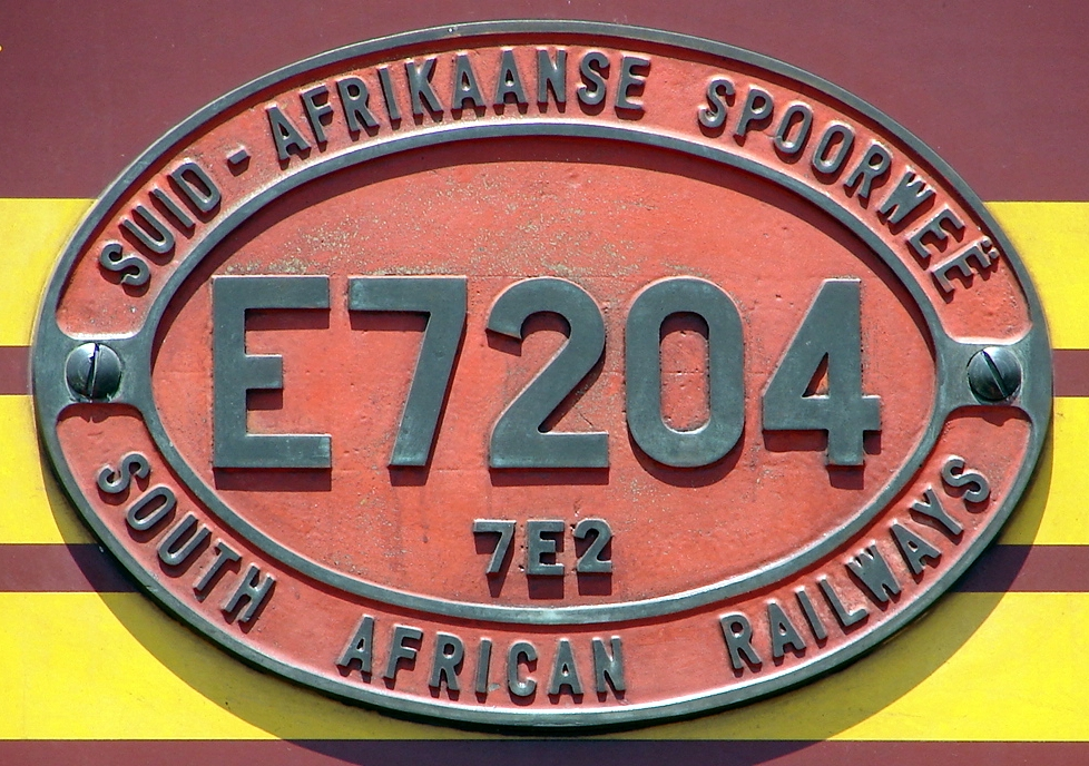 SAR Class 7E2 Series 2 E7204 number plate Location: Pyramid South, Pretoria, Gauteng